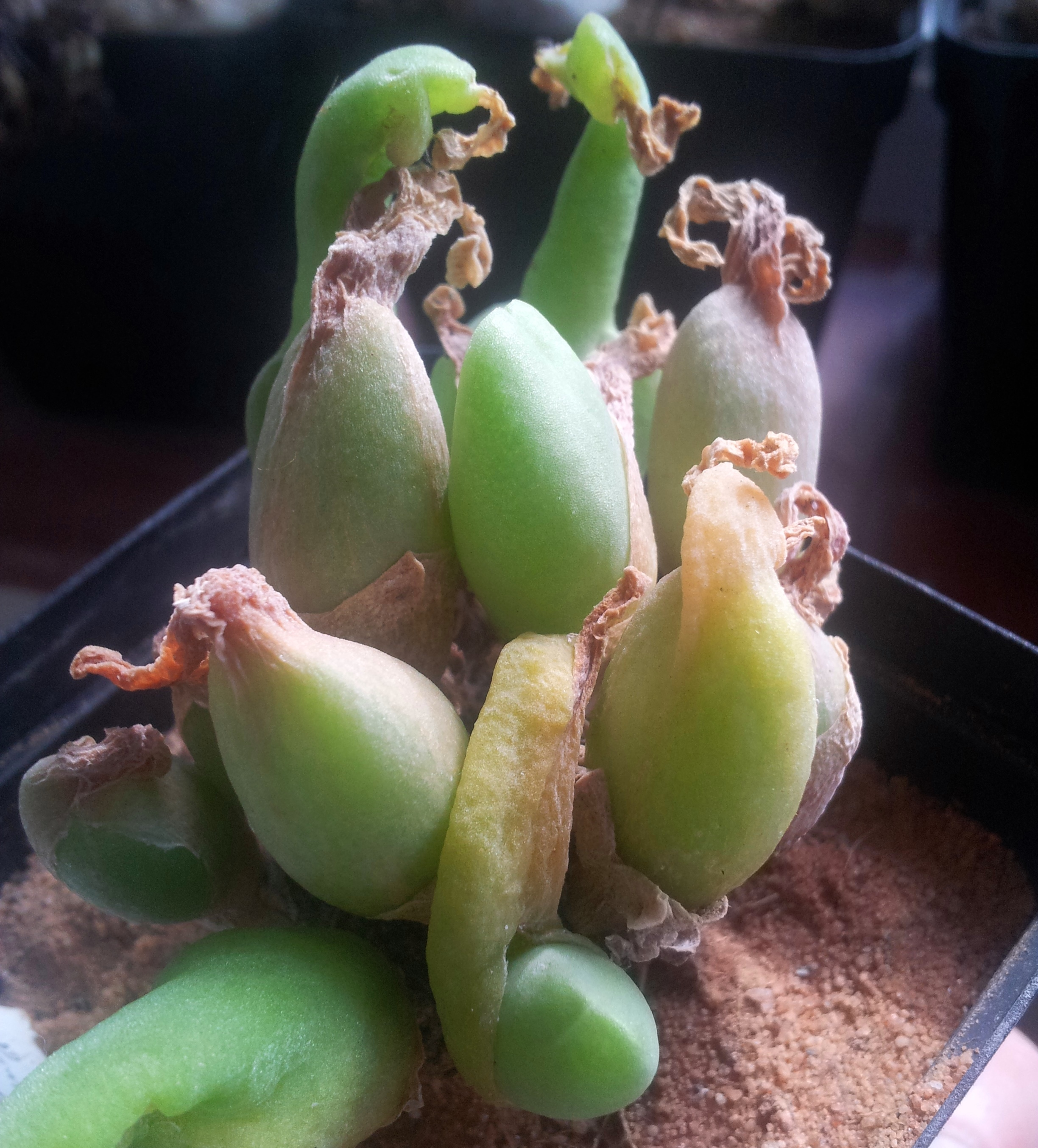 Monilaria globosa